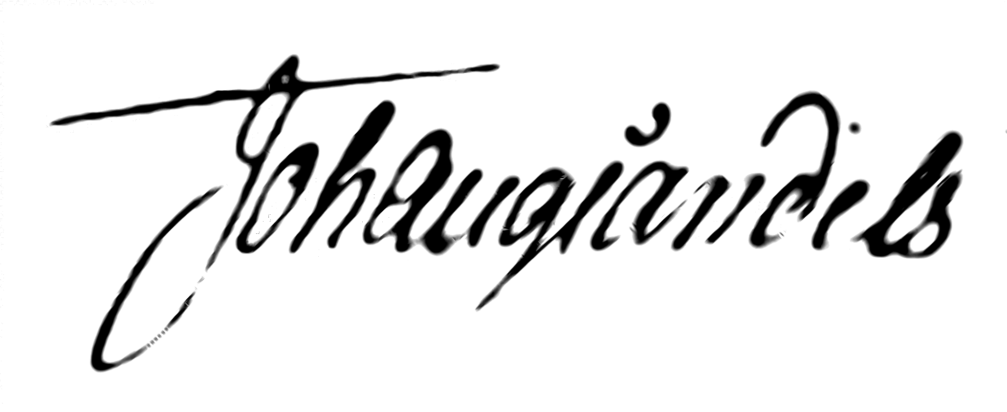 Signature of Johan August Sandels